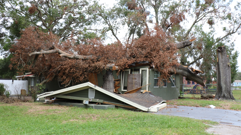 A home destroyed by a tree​ in Lakeland, Florida, during Hurricane Irma